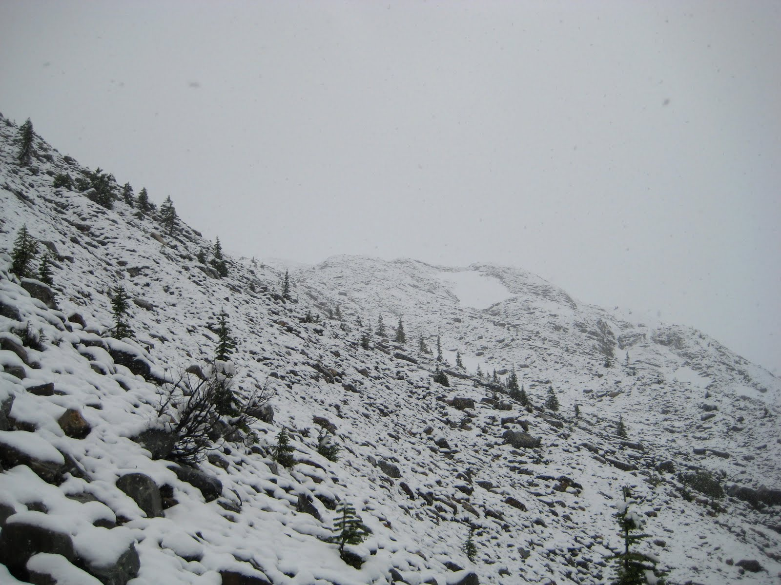 Asulkan Hut, Glacier National Park